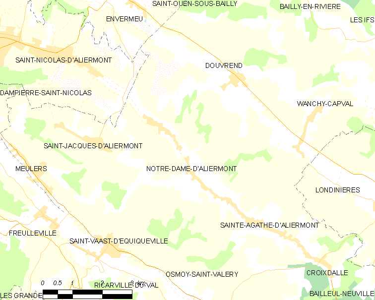 Map of French municipality Notre-Dame-d'Aliermont